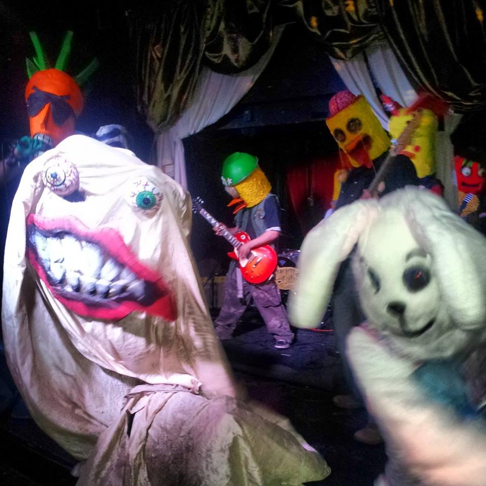 A picture of California punk rock band The Radioactive Chicken Heads playing at the Silverlake Lounge in Los Angeles on March 30, 2013